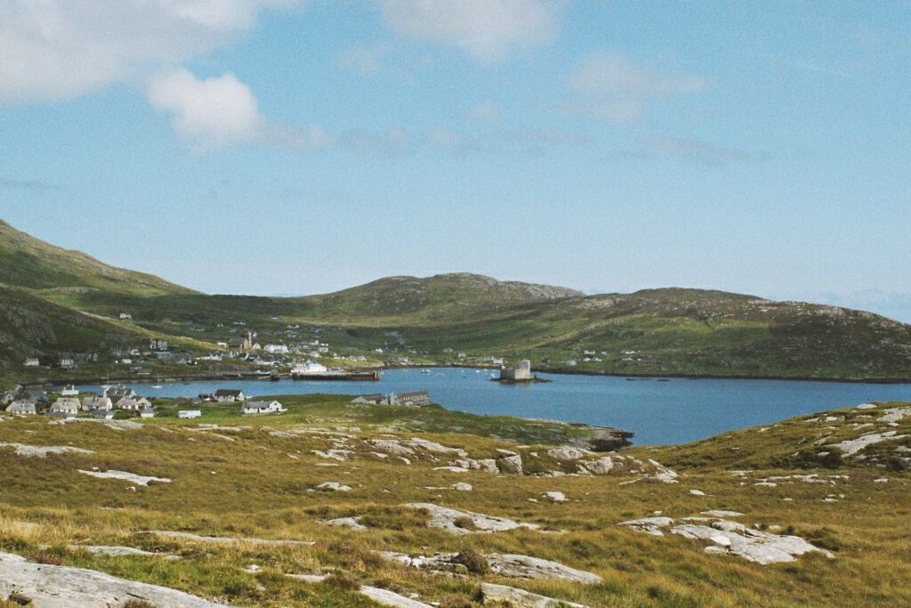 Total view of Castlebay: bay, castle, town, harbour; Isle of Barra (Scotland)